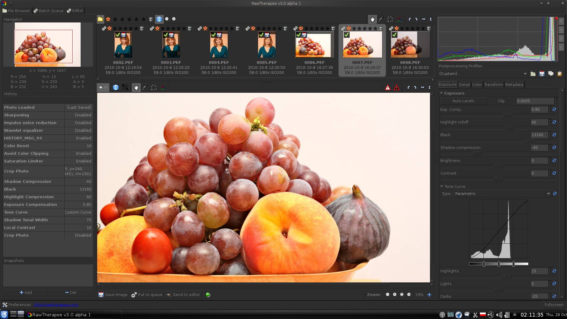 RawTherapee 3.0 alpha1 showing a raw photo being edited.